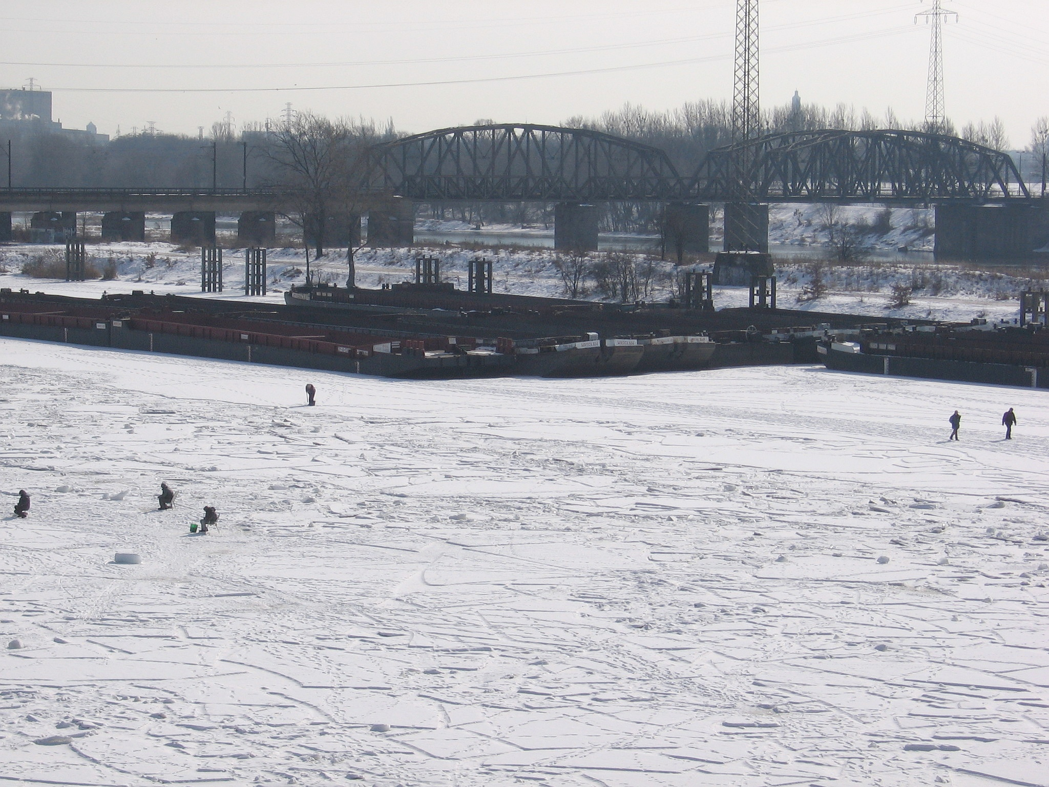 Oder River, Wrocław, Poland. Barge winter harbour; in background - railway bridge